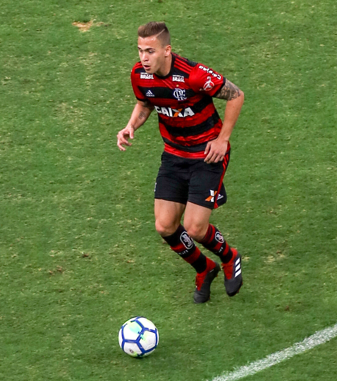 2018 Campeonato Brasileiro Série A – Flamengo v Vasco, 15 September 2018